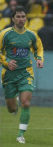 Vladimir Gerasimov in action for FC Kuban